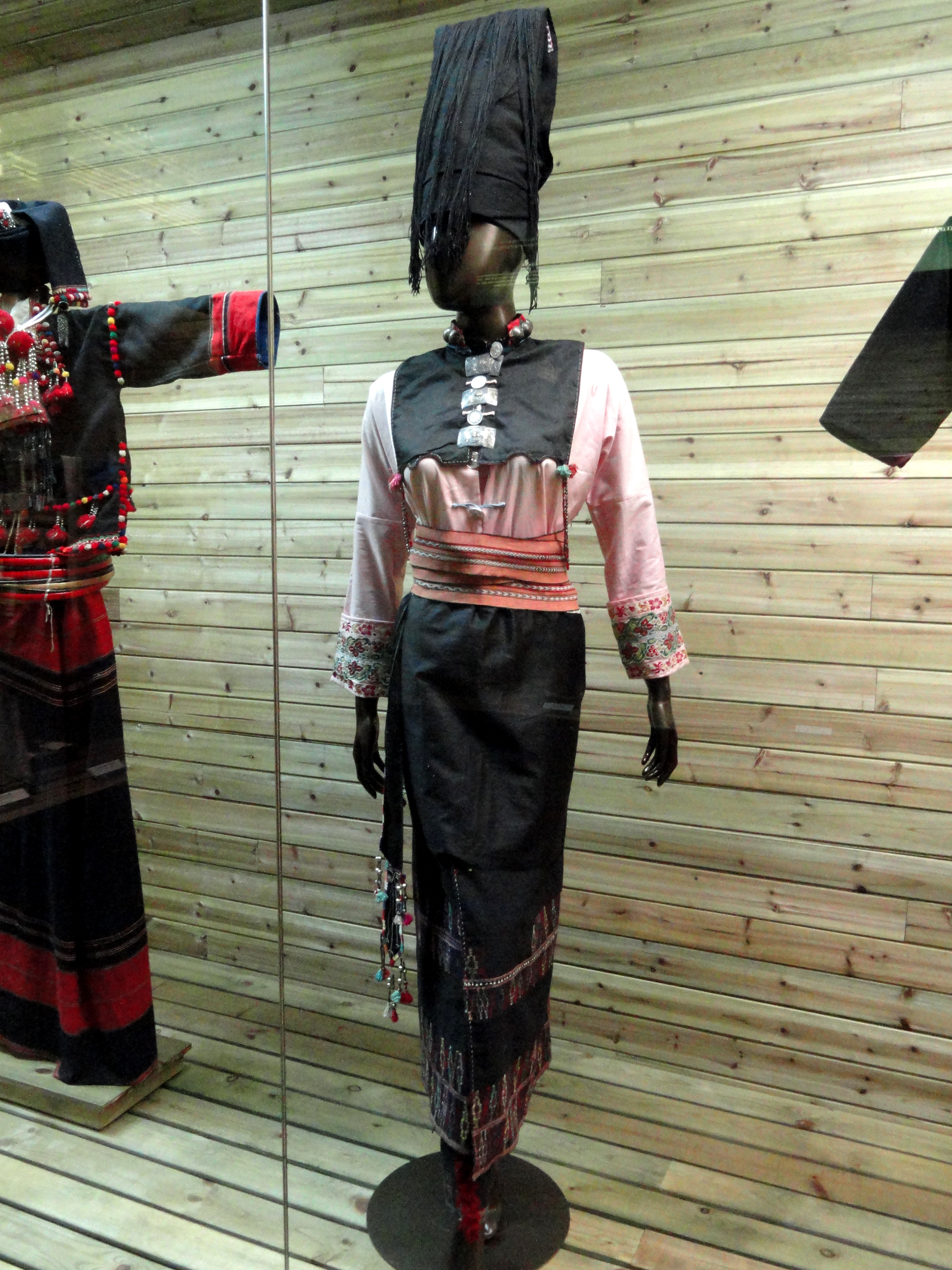 Achang woman brocade dress. Clothing exhibited in the Yunnan Nationalities Museum, Kunming, Yunnan, China.